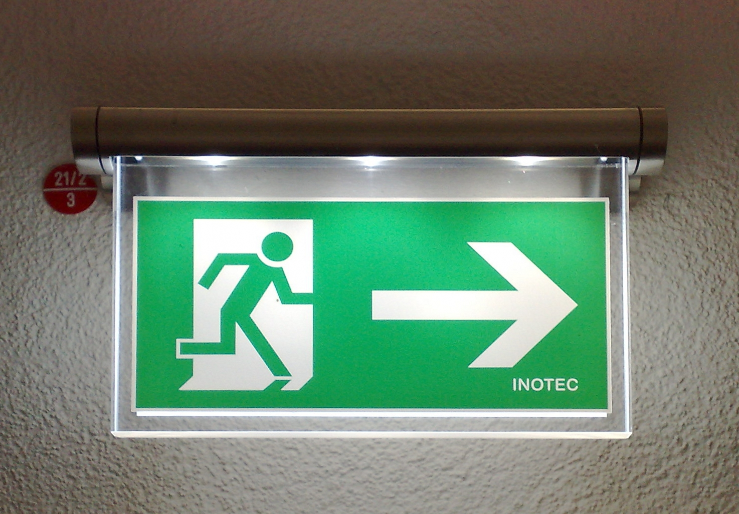 Exit sign by Inotec with presumed LED lighting in a public building in Germany (Hesse). Arrow pointing right.